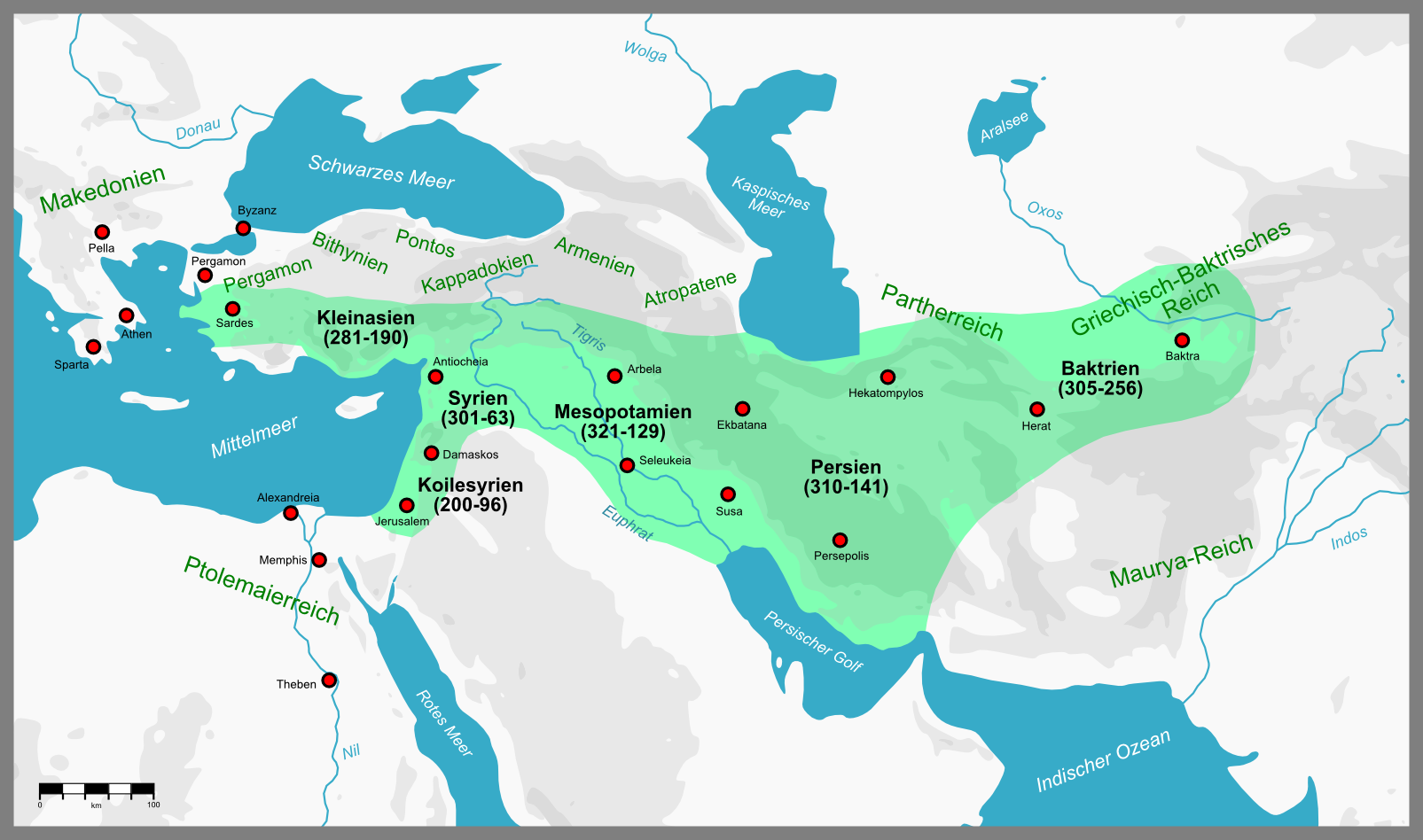 Map of the Seleucid Empire